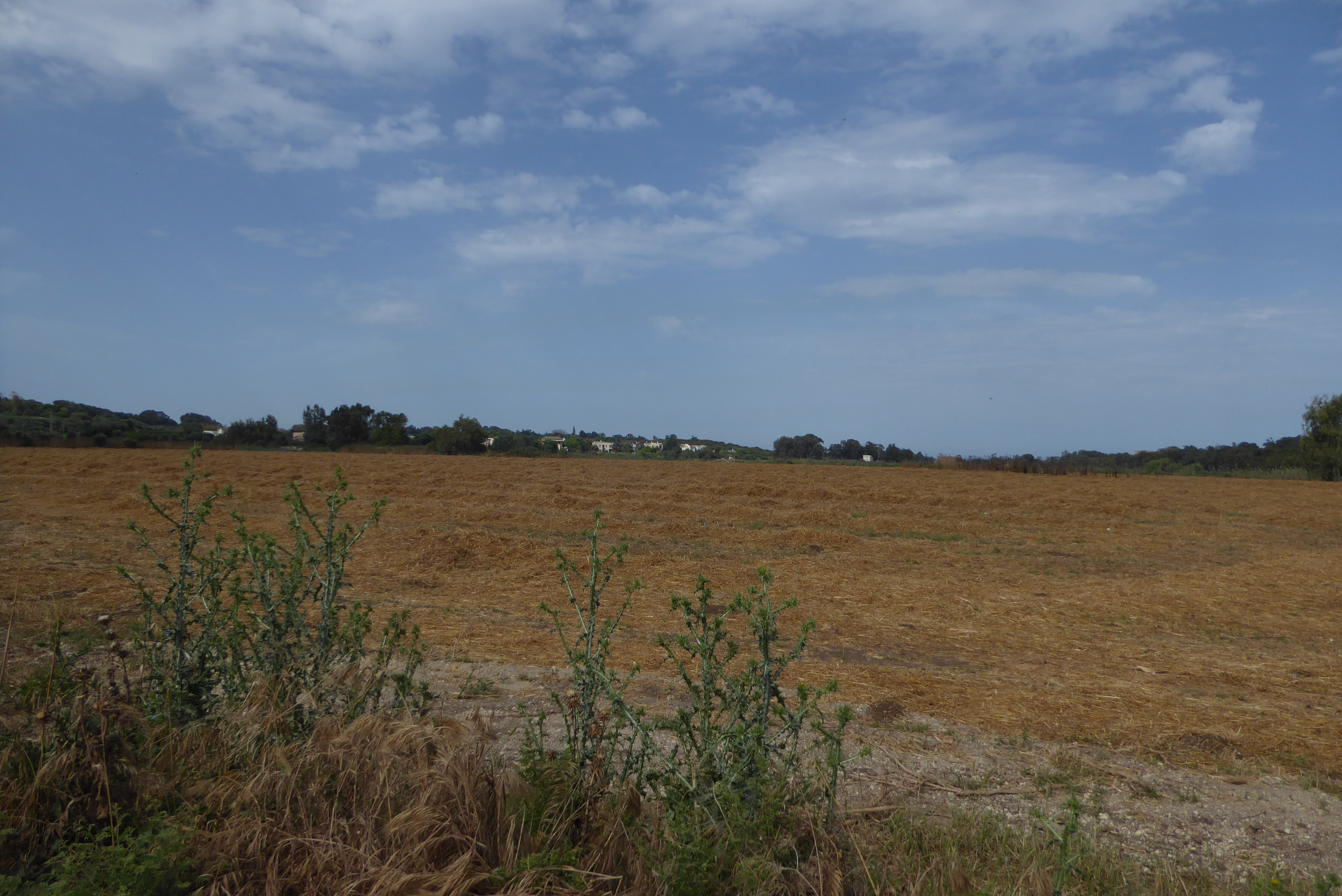 Alexander Stream